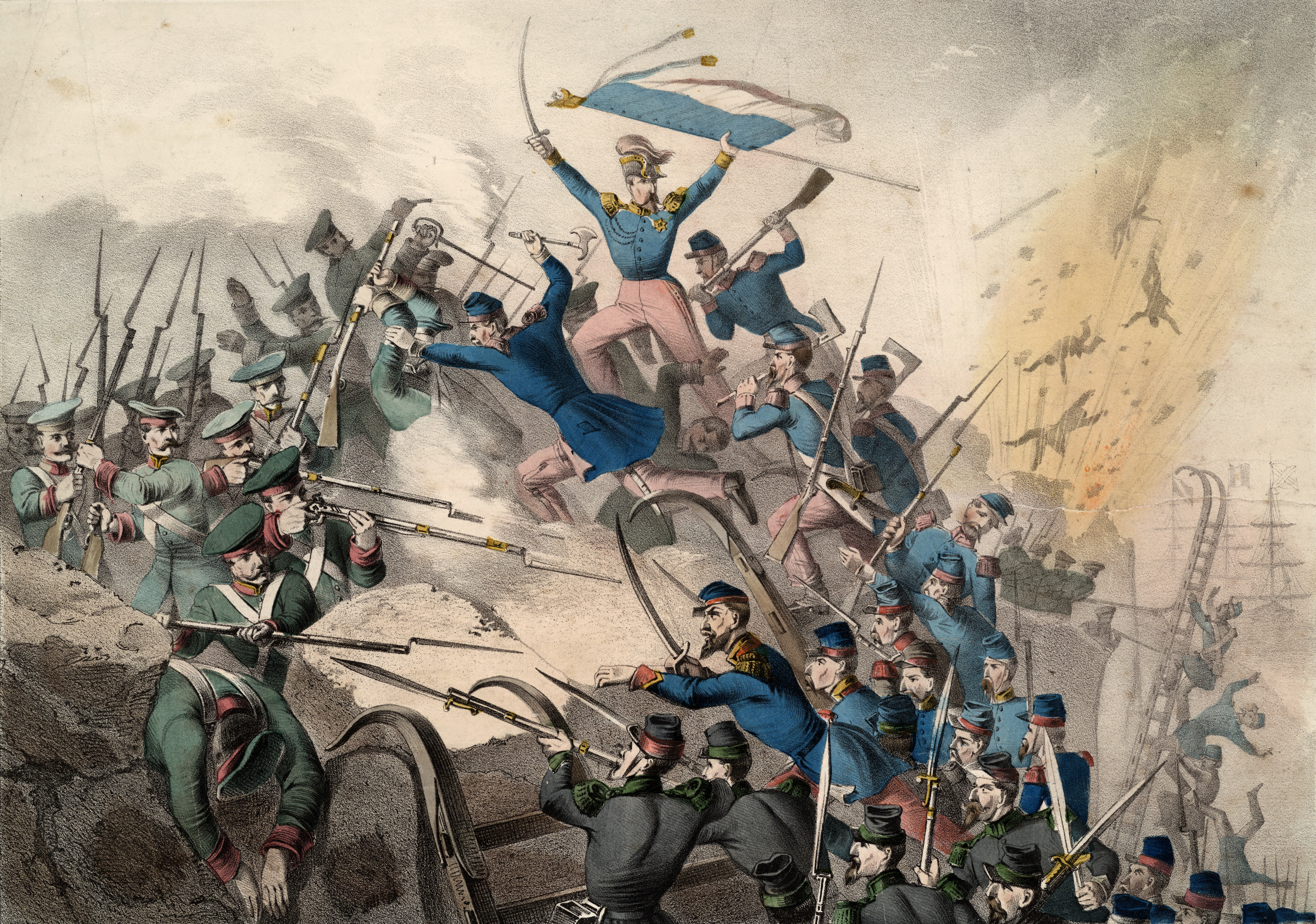 Bomarsund taken by assault, 15 August 1854.